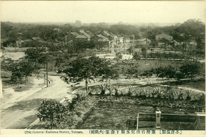 General Kodama Statue, Tainan, Taiwan